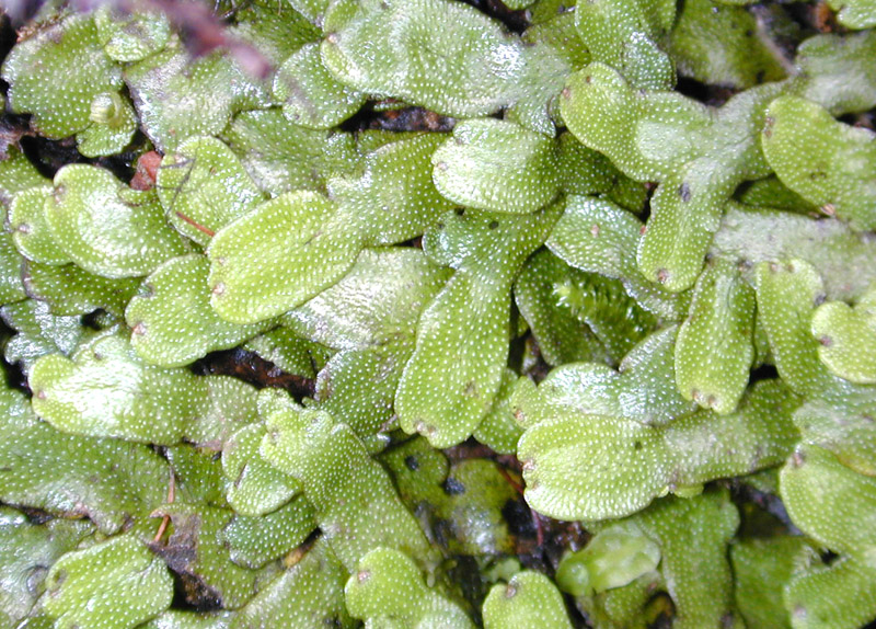 A liverwort (probably Conocephalum conicum -- see talk page) photographed on the Island of Hawai'i